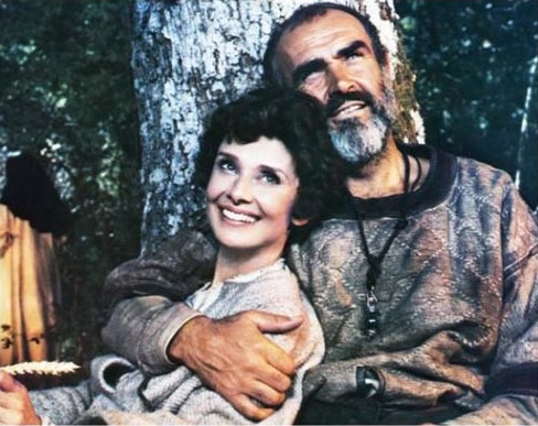 Publicity photo of Audrey Hepburn & Sean Connery taken for film Robin and Marian (1976). See also film still. No copyright notice.